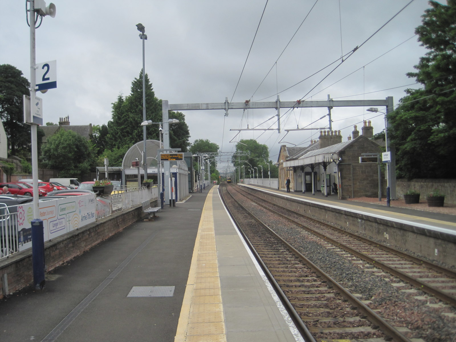 Linlithgow railway station, West Lothian